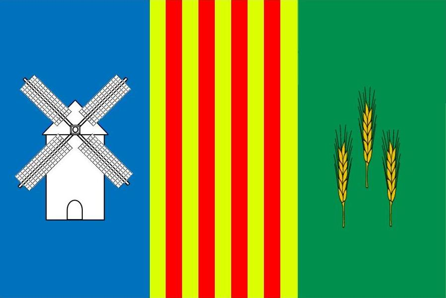 Malanquilla flag